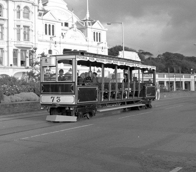 Cable car on Douglas Promenade The ex-cable car runs along the horse-car tracks along Douglas Promenade, powered by batteries.